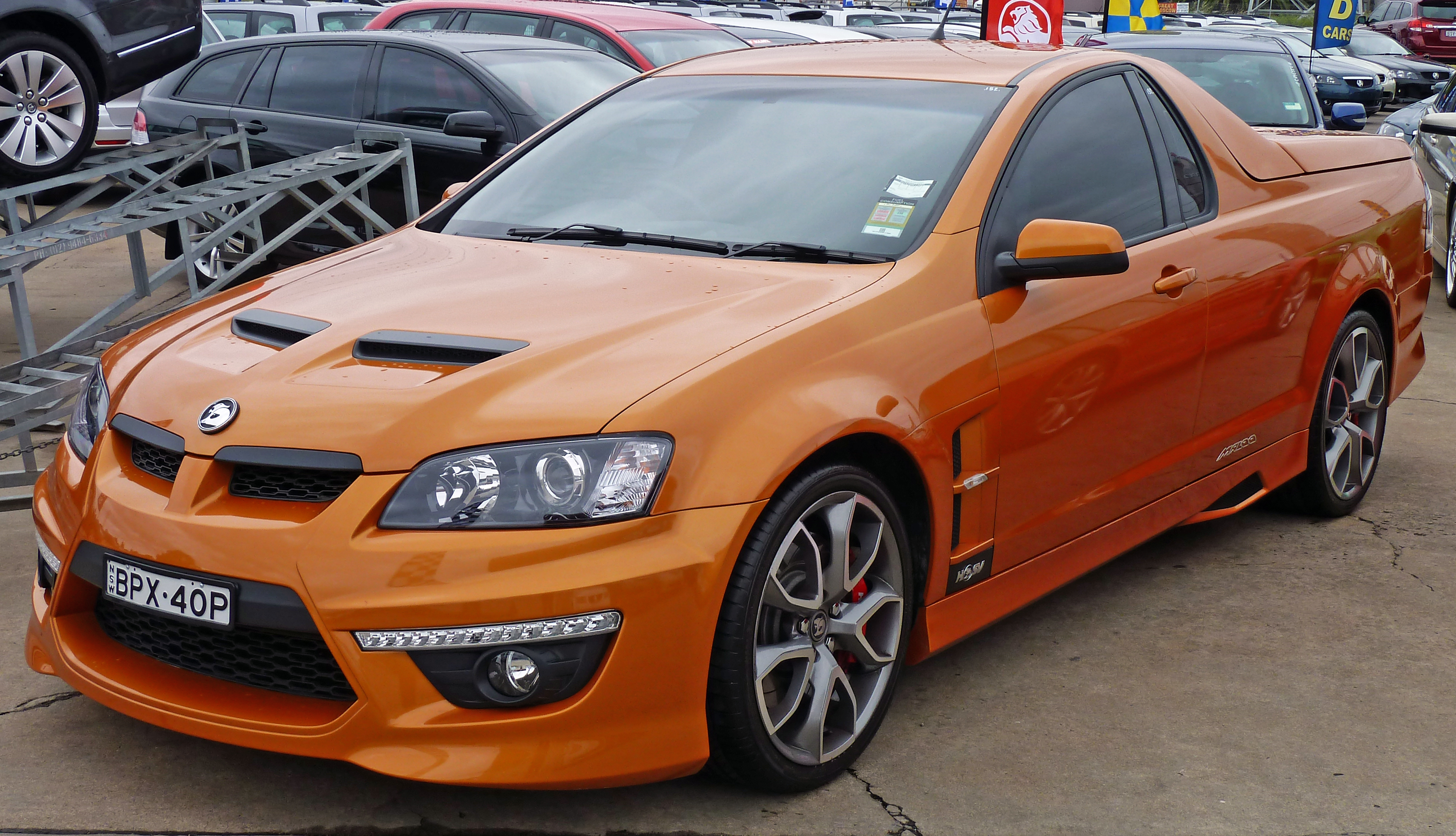 2009 HSV Maloo (E Series 2 MY10) R8 utility. Photographed at Suttons Holden, Chullora, New South Wales, Australia.